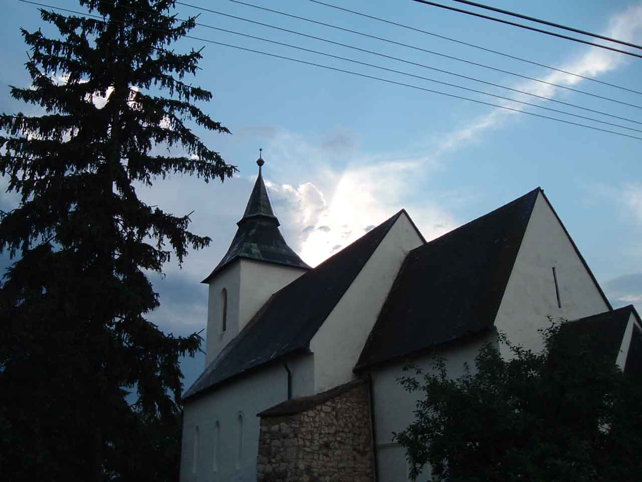 The church of Vizsoly, Hungary